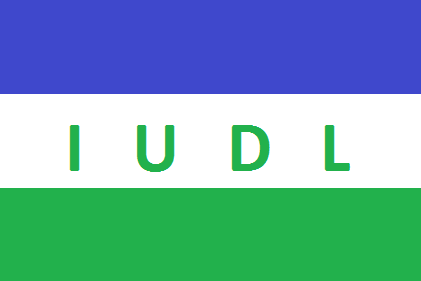 flag of the Indian Union Dalit League. Based upon